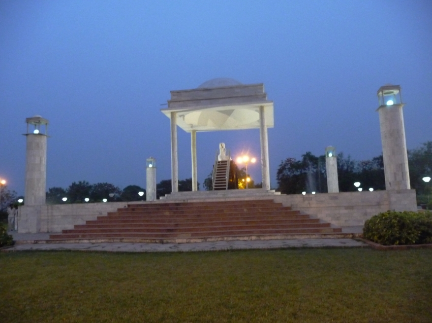 A picturesque of Sri Guru Ravidass Park, Varanasi